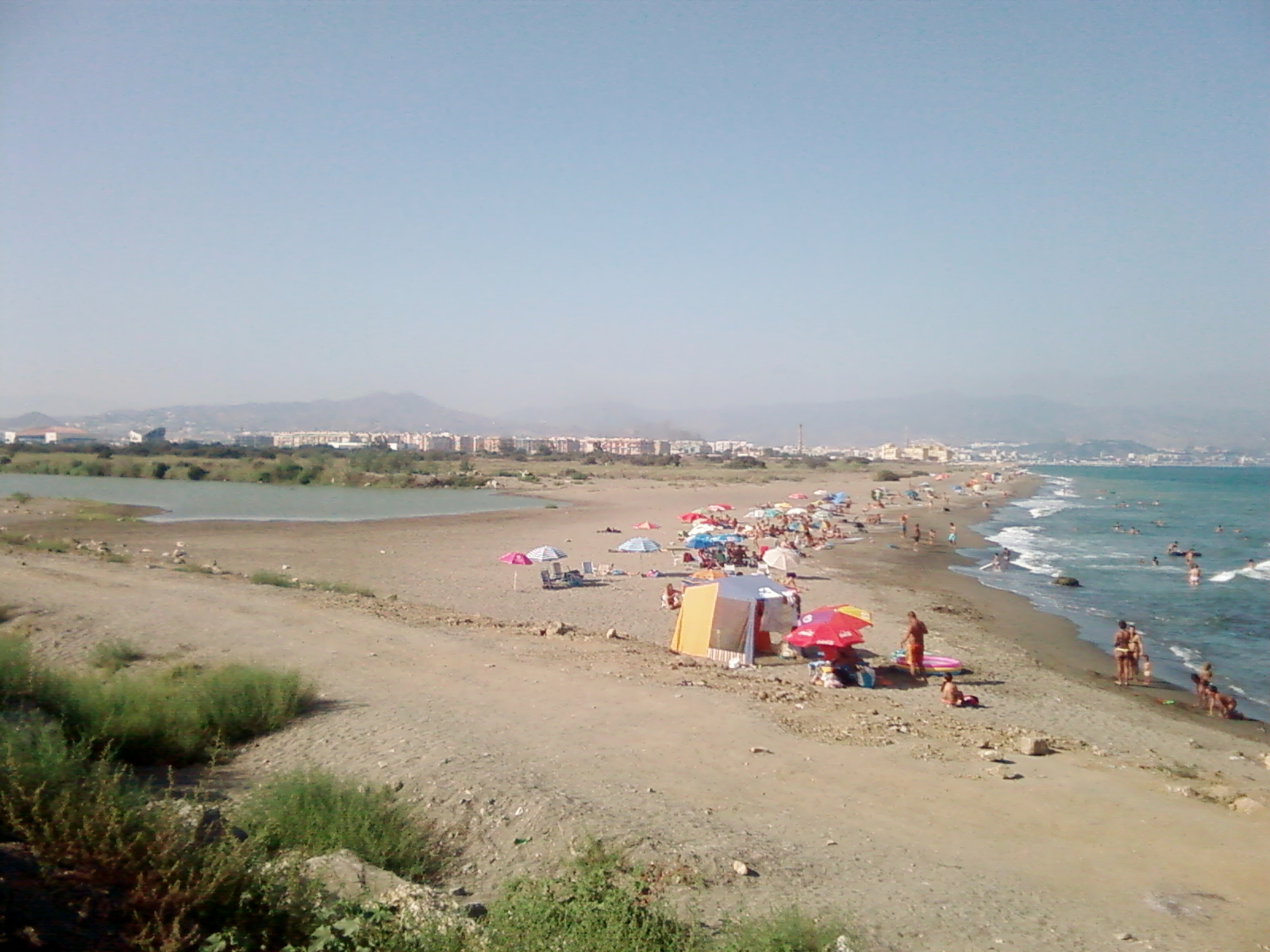 Guadalhorce Beach, Málaga, Spain